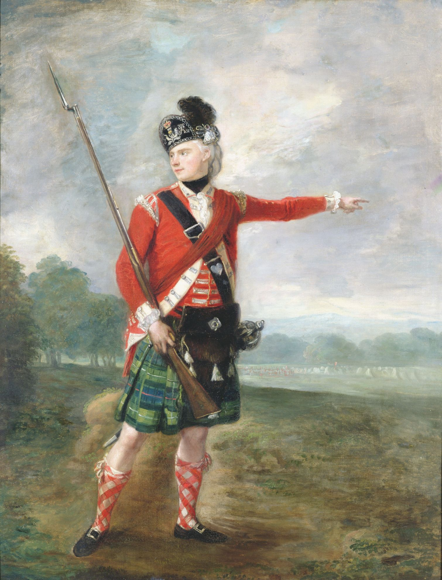 Officer of the Light Company 73rd Foot -1770s